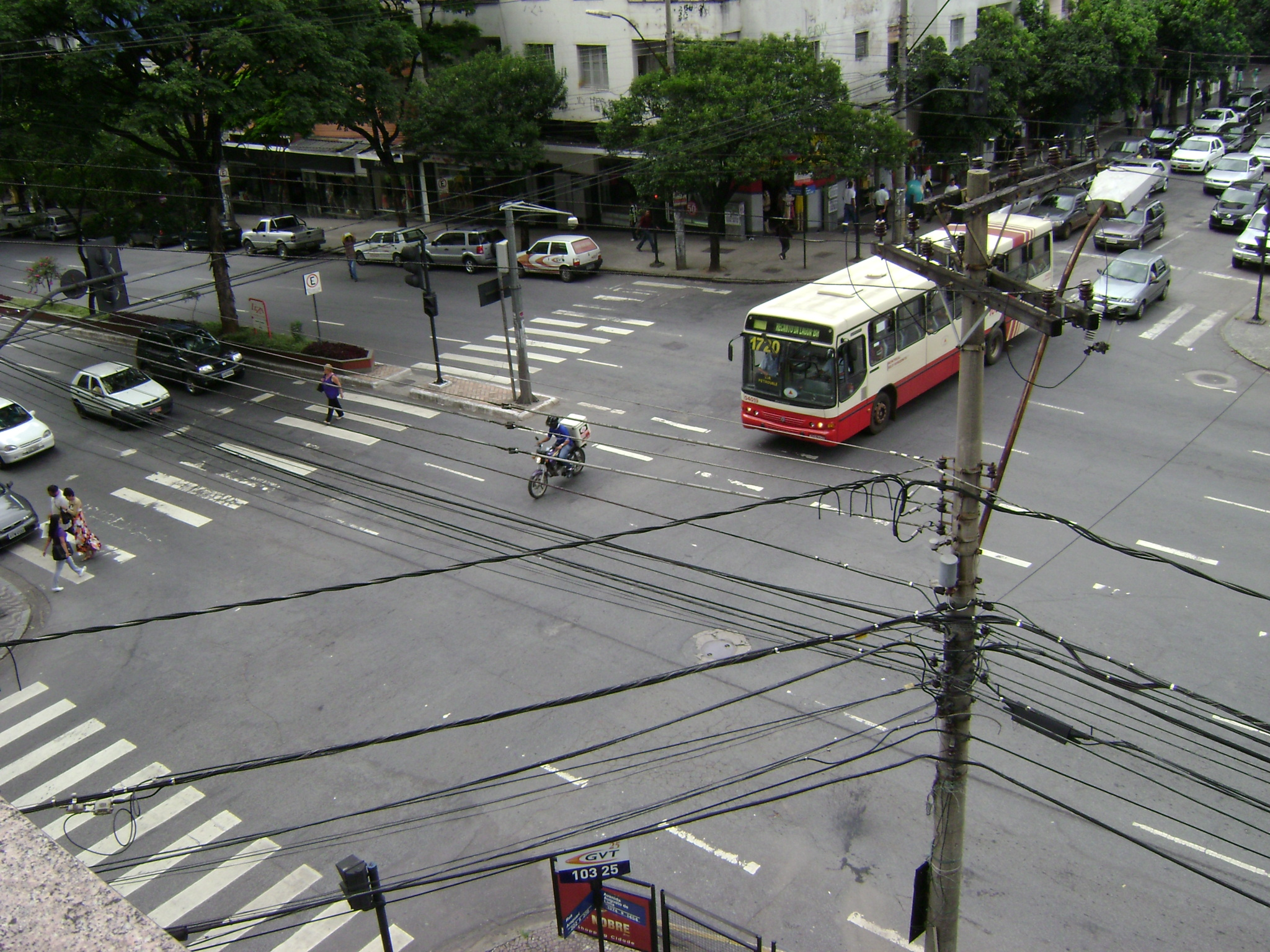 Augusto de Lima Avenue, in Belo Horizonte